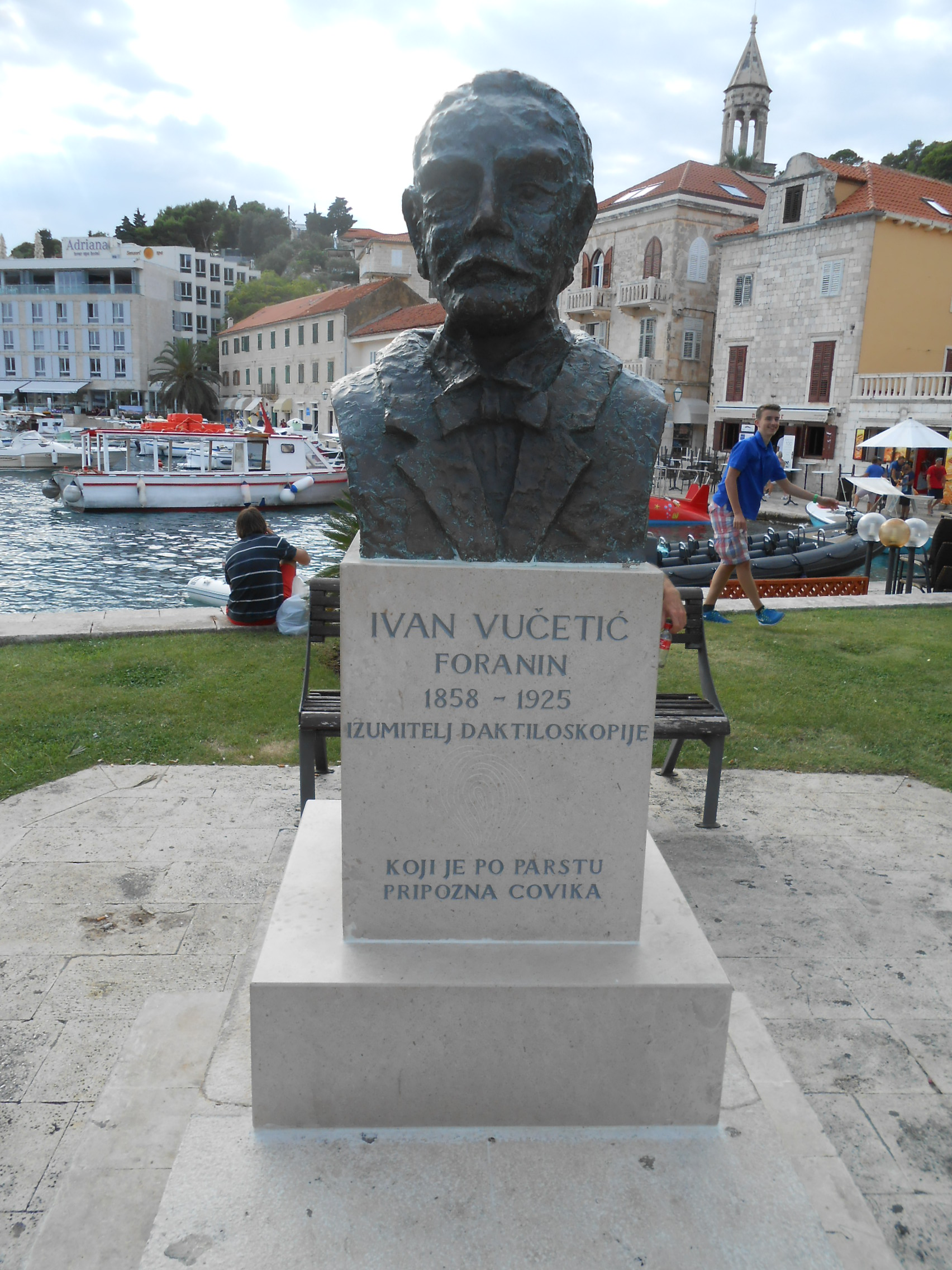 Ivan Vučetić's bust in the port of Hvar